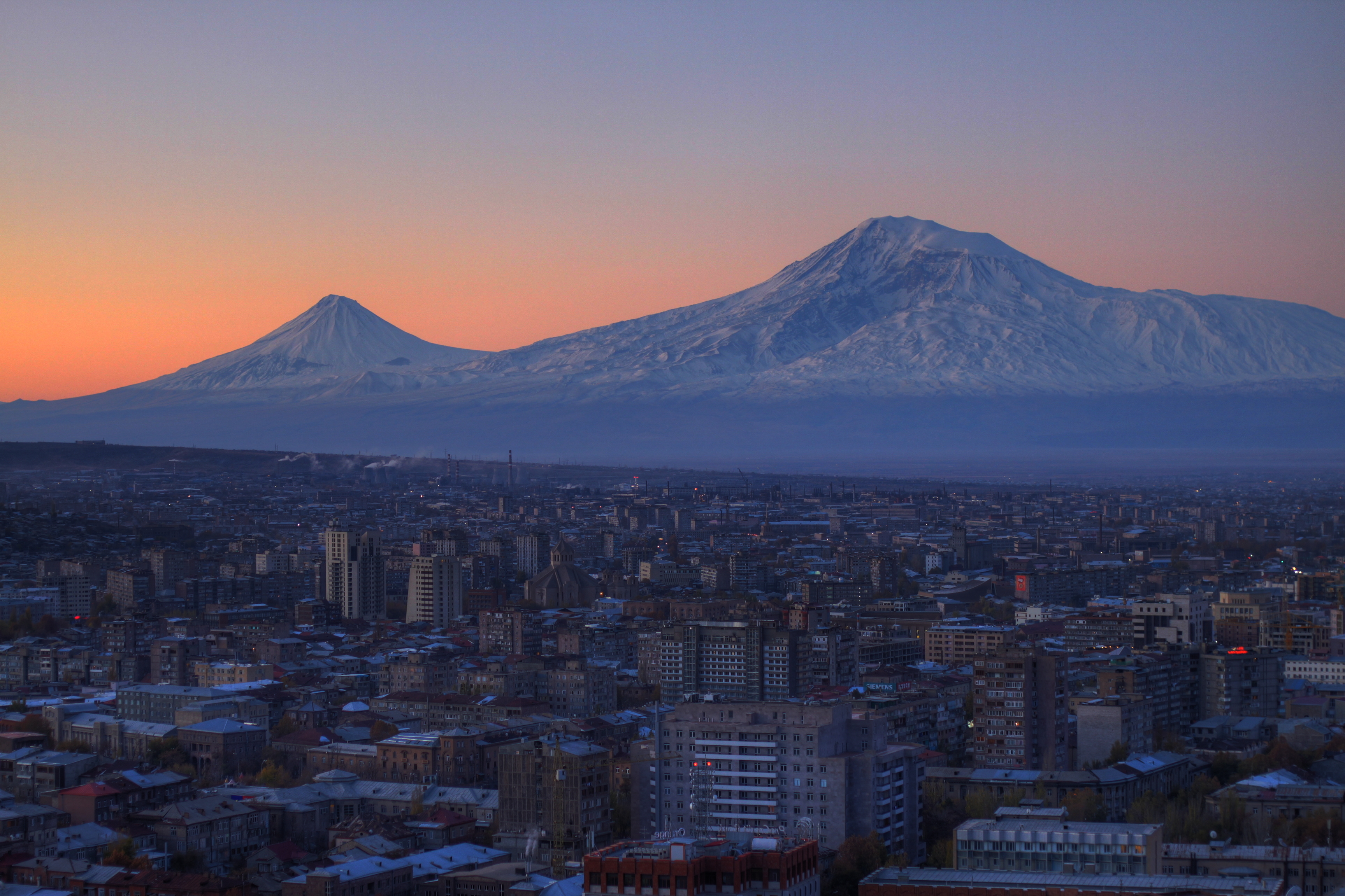 A view at dawn of Yerevan, the capital city of the Republic of Armenia, with the backdrop of Mount Ararat (locally known as Masis). This image is a tribute to the hospitality and life of the residents of Yerevan.